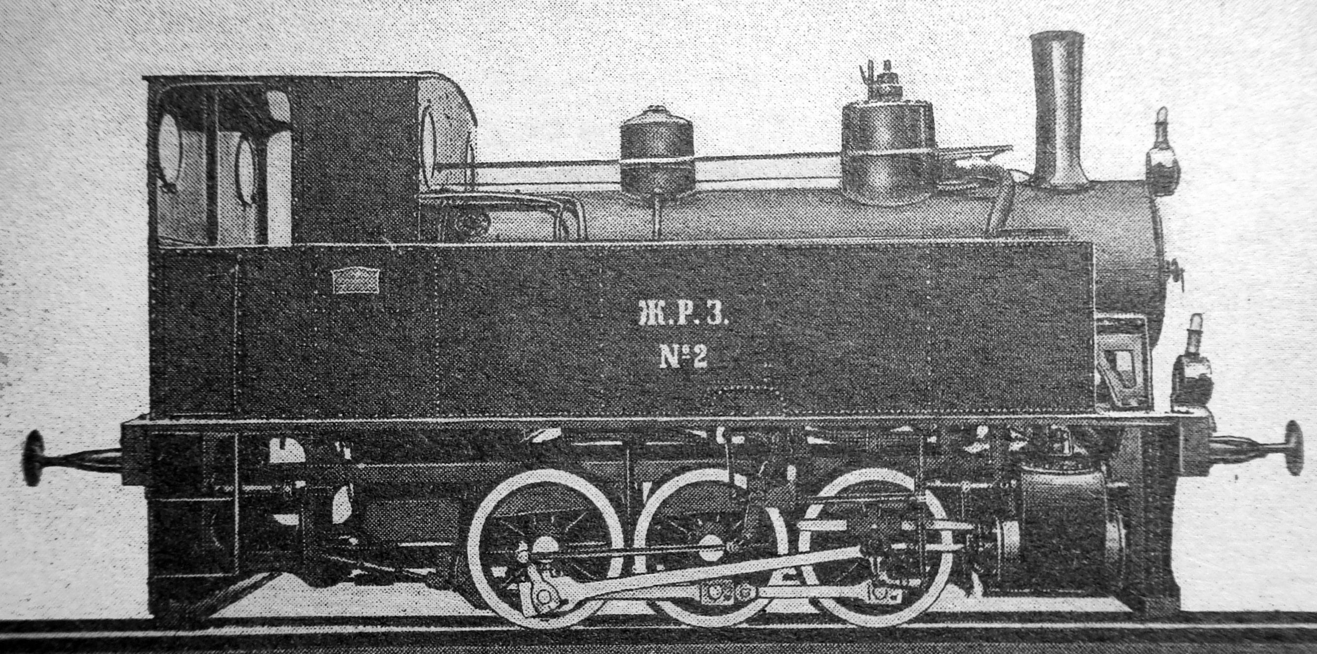 Russian tank loc type I3 by Kolomna Works